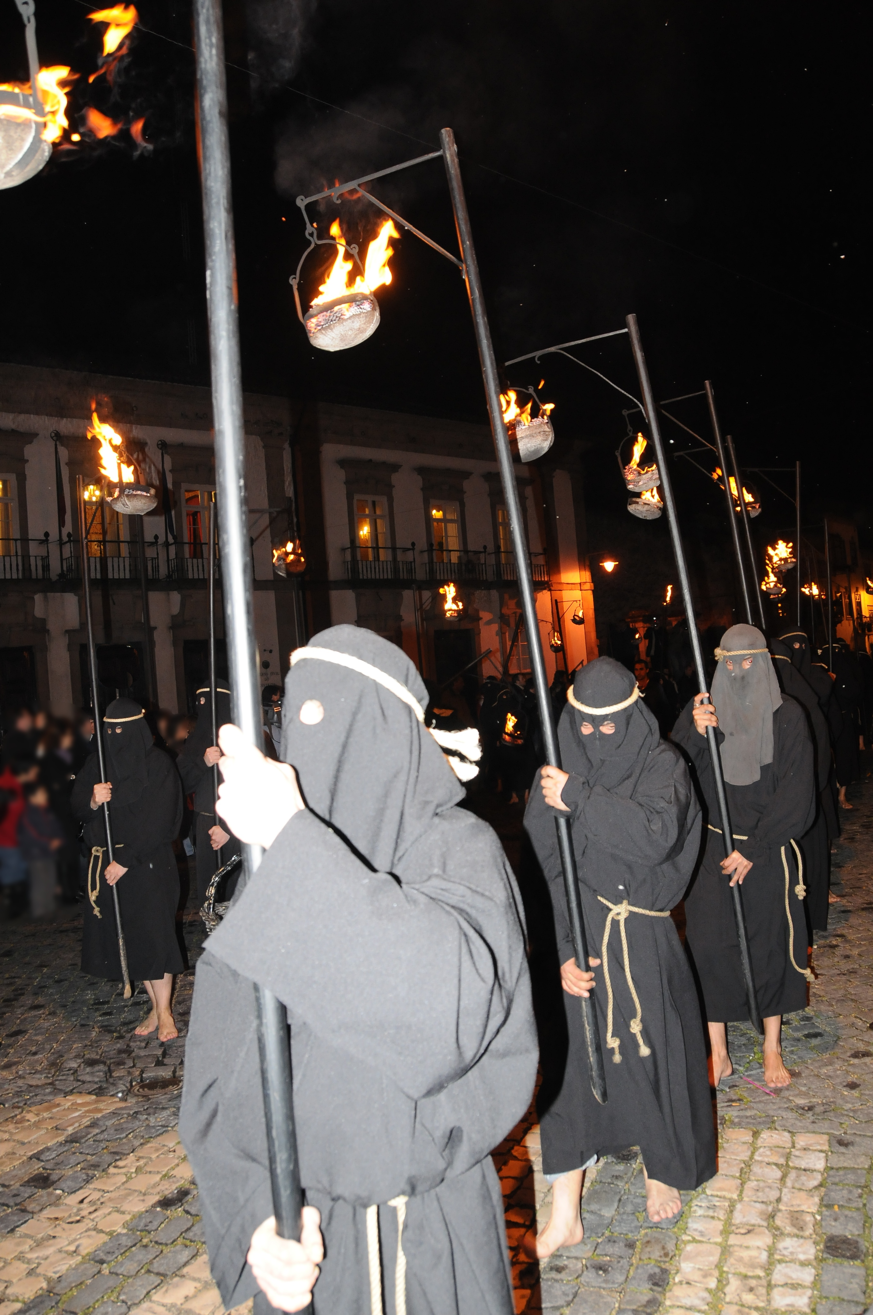 "Farricocos" in the Procession "Ecce Homo" in the Maundy Thursday, in Braga, Portugal.